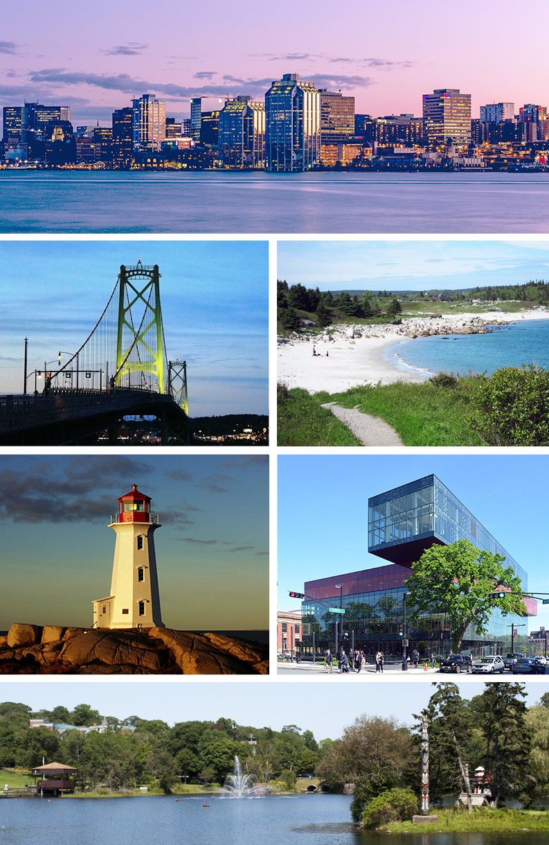 A montage of sights in Halifax, Nova Scotia. Derived from other free images found on Wikimedia Commons.